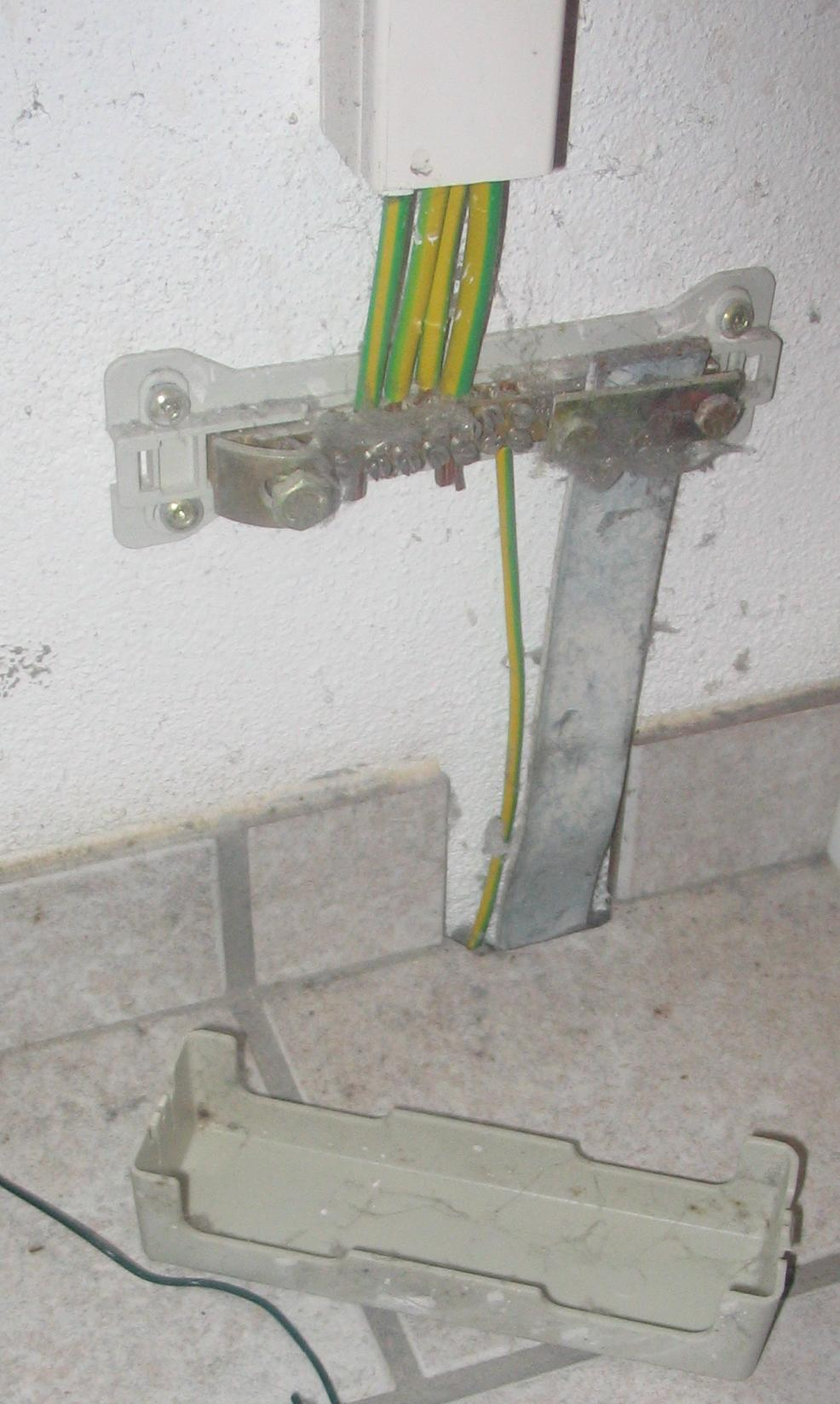 An installed equipotential bonding rail. Photo by User:Jarlhelm Photo taken on January 16, 2007